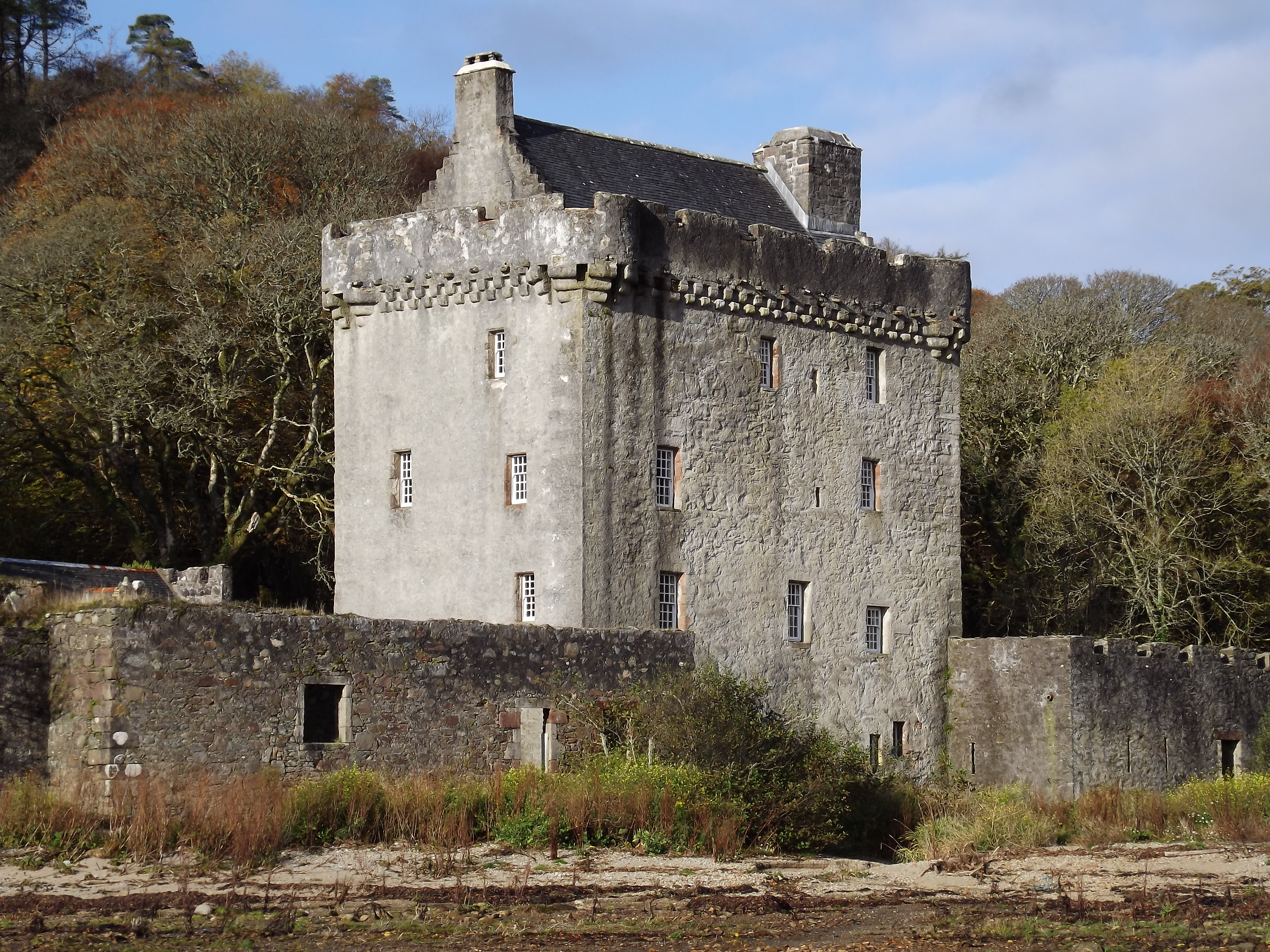 Saddell Castle, 2012